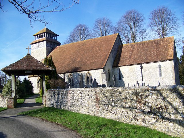 St Andrew's Church, Meonstoke, near to Corhampton, Hampshire, Great Britain. A 13th century parish church, built mainly in the Early English style, with a with a striking Welsh-border style tower. The lych gate is a memorial to those who died in the first world war.